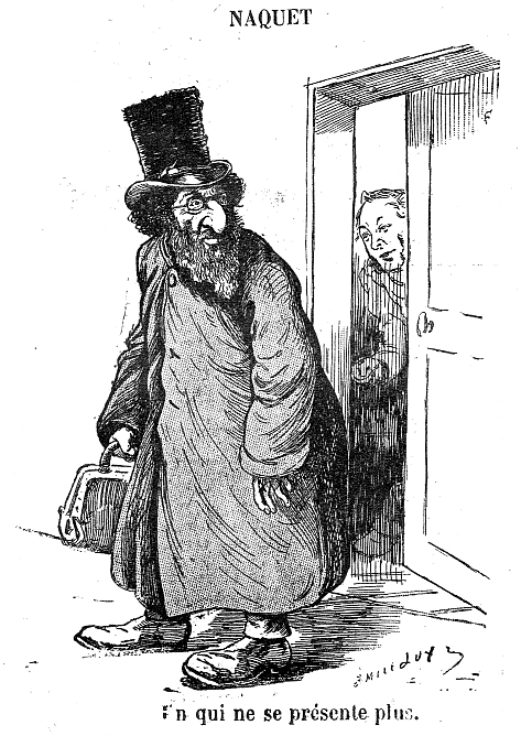 Caricature of French politician Alfred Naquet (1834-1916)